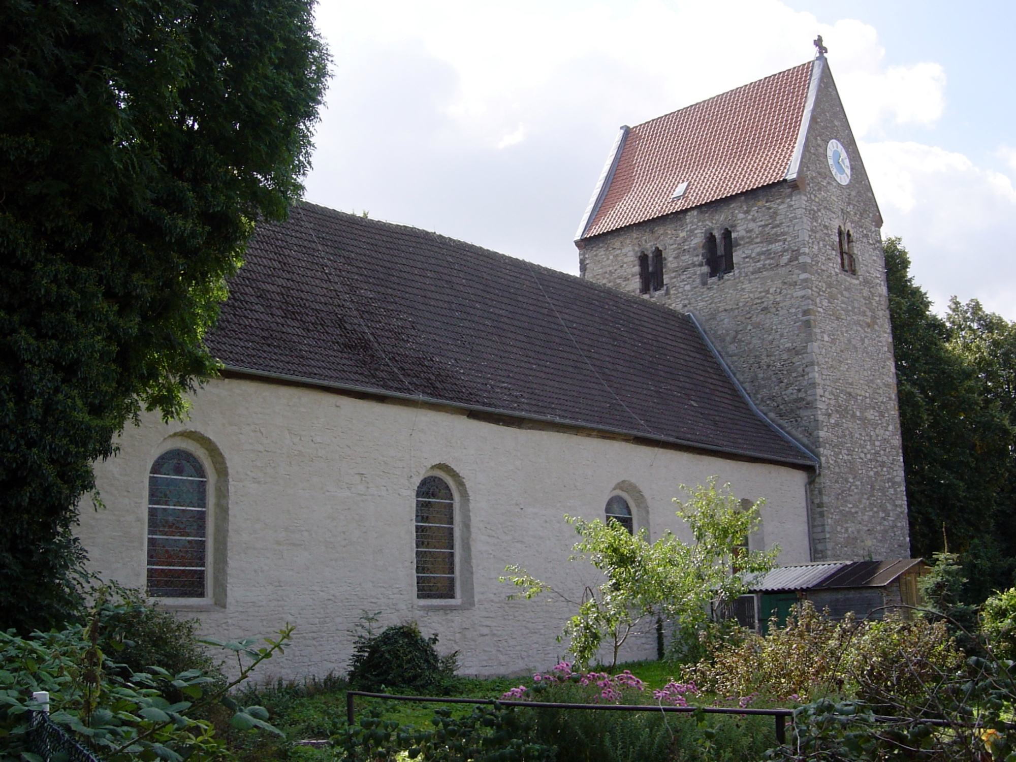 Protestant church in Uhrsleben, Germany